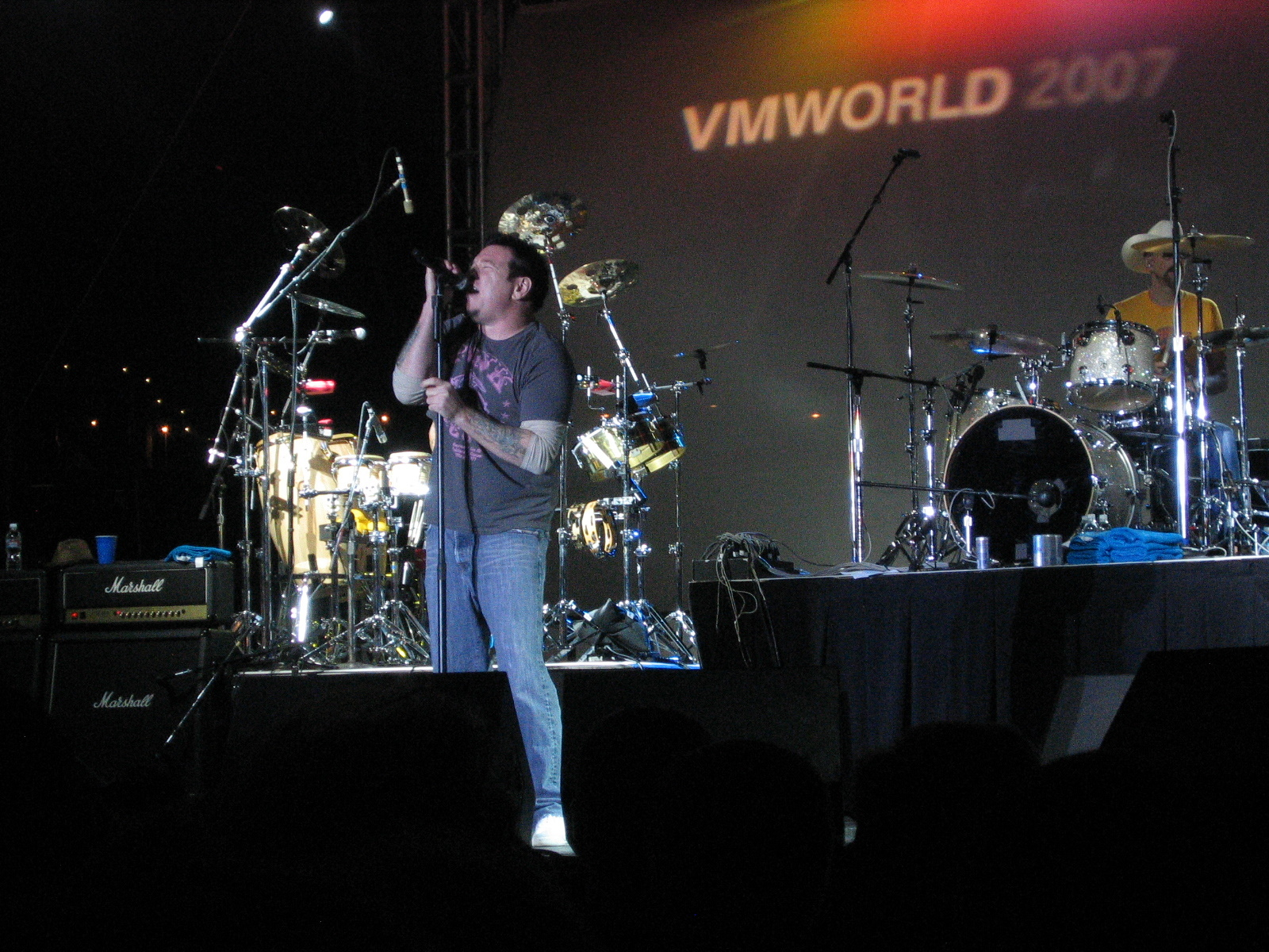 Smash Mouth - Steve Harwell